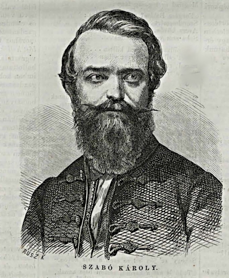 The historian, translator Károly Szabó (1824–1890). Engraving of Károly Rusz.